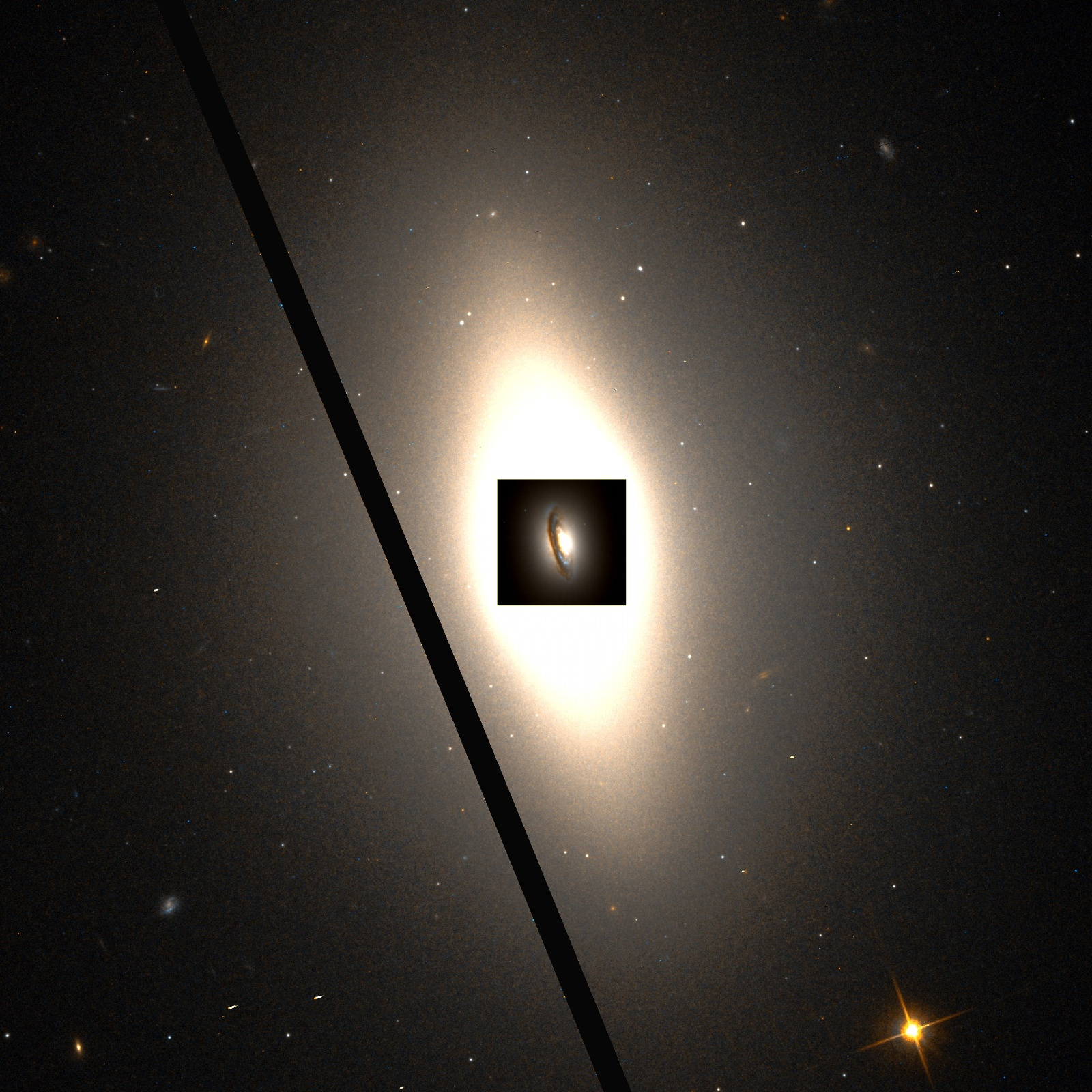 NGC 4435 and dust ring around its nucleus by Hubble Space Telescope 1.8′ view, North is up The image created using WikiSky's image cutout tool out of Hubble Space Telescope data. Original Source: [1] UGC 7575 = NGC 4435 HLA